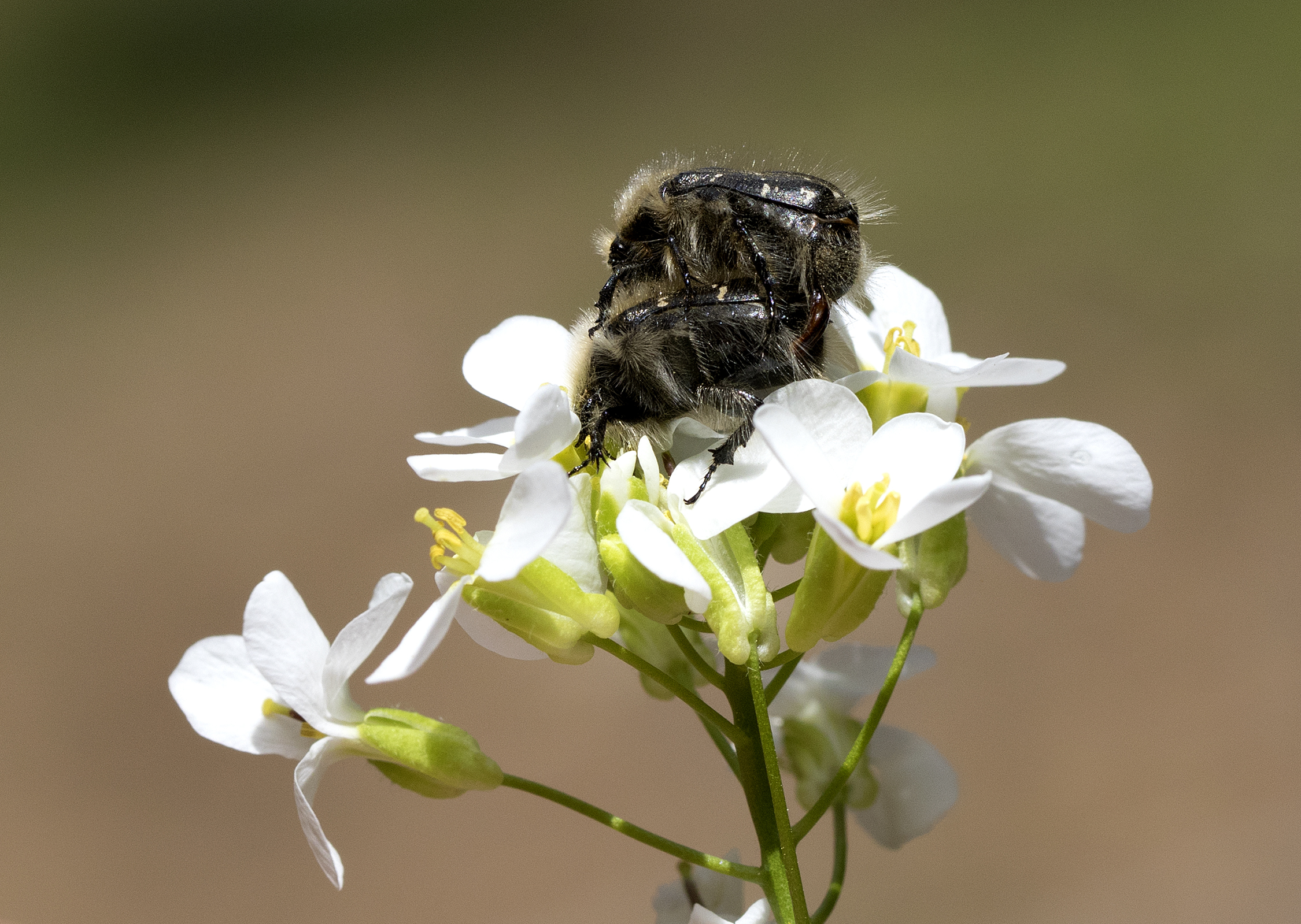 Blossom feeders (Tropinota hirta) copulating. Dutlupınar - Saimbeyli - Adana, Turkey.